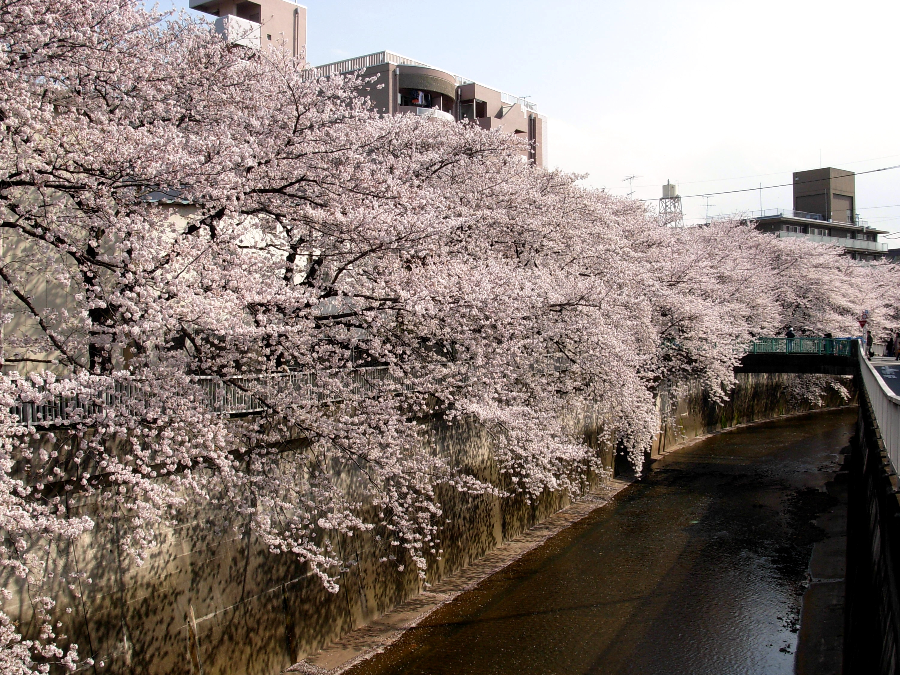 Shakujii River and Cherry Blossoms, Hanegi bridge,Hazawa, Nerima, Tokyo, Japan